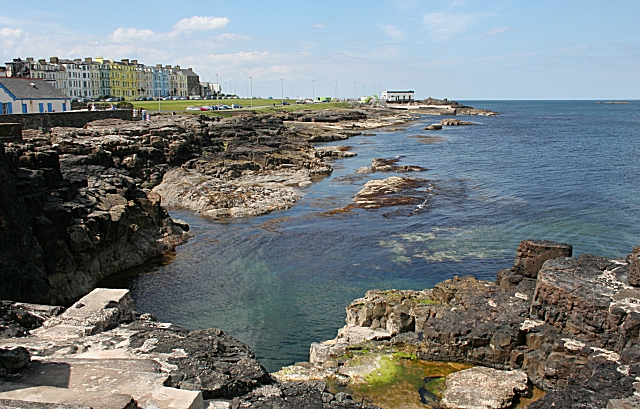 Portrush This is the quieter side of Portrush compared with the harbour and main streets further west. The white building with blue window frames is an information centre, and the solitary building on the headland is the Shelter, formerly a lifeboat station. I think the foreground is what is known as the Blue Pool - it certainly looks like a tempting spot for a swim.